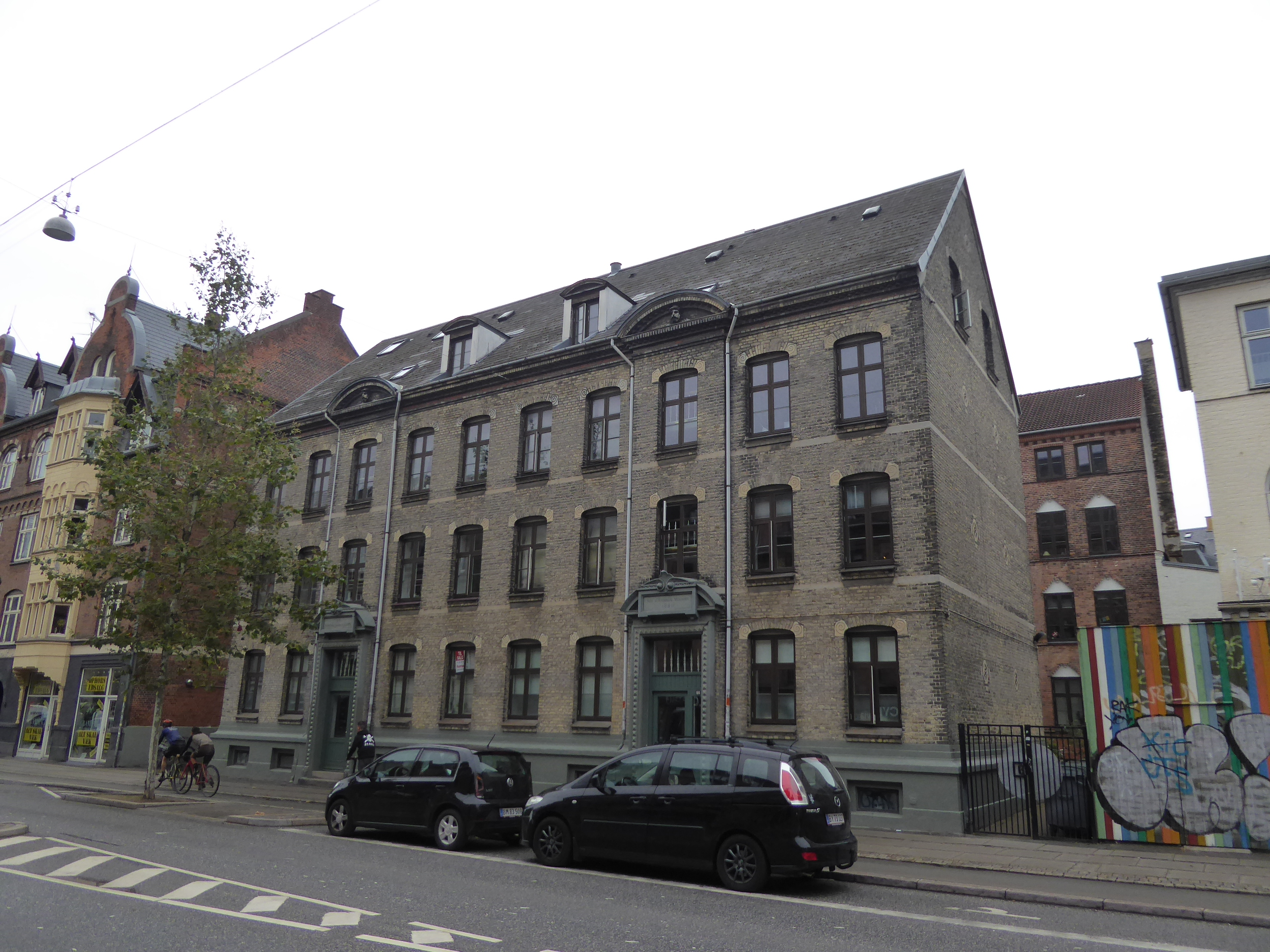 Apartment building at H.C. Ørsteds Vej in Frederiksberg in Copenhagen.